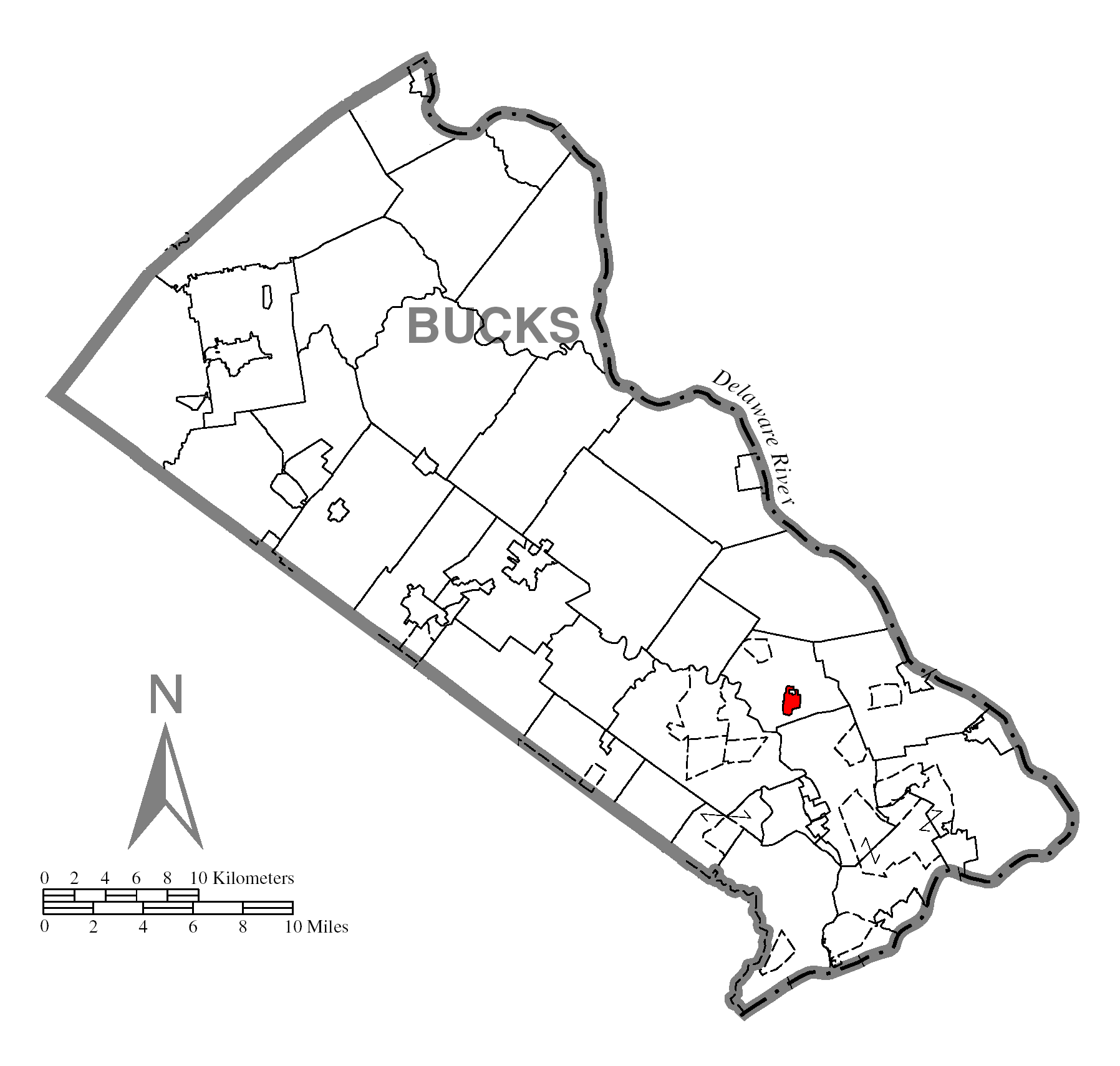 A map of Bucks County showing Newtown, Pennsylvania (alternate) highlighted on the map.